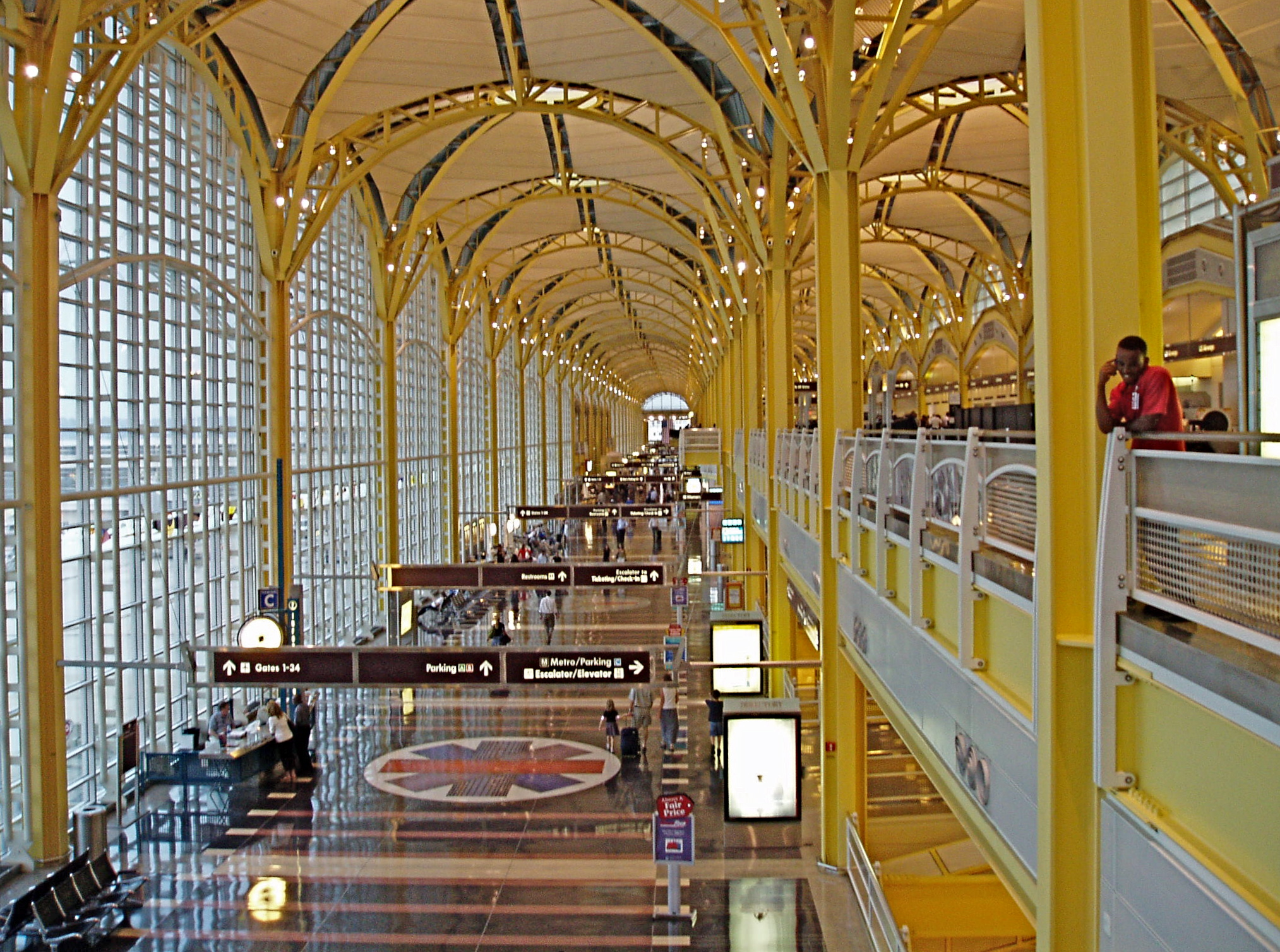 Terminals B and C of Ronald Reagan Washington National Airport, part of the Metropolitan Washington Airports Authority, located in Arlington County, Virginia, just outside Washington, D.C.